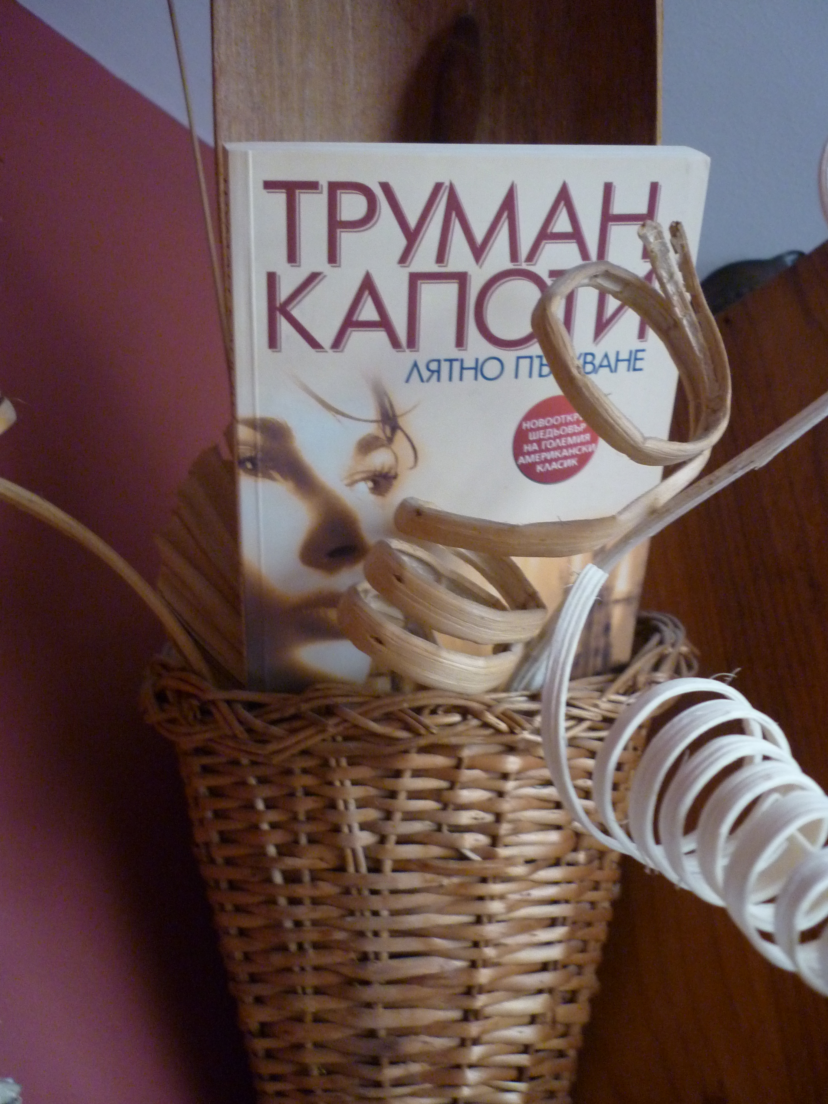 Still life with the Bulgarian edition of Summer Crossing by Truman Capote.